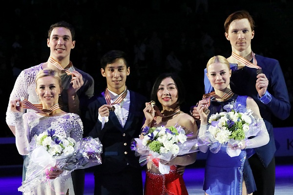 The pair skating podium at the 2017 World Championships. From left: Aliona Savchenko / Bruno Massot (2nd), Sui Wenjing / Han Cong (1st), Evgenia Tarasova / Vladimir Morozov (3rd).